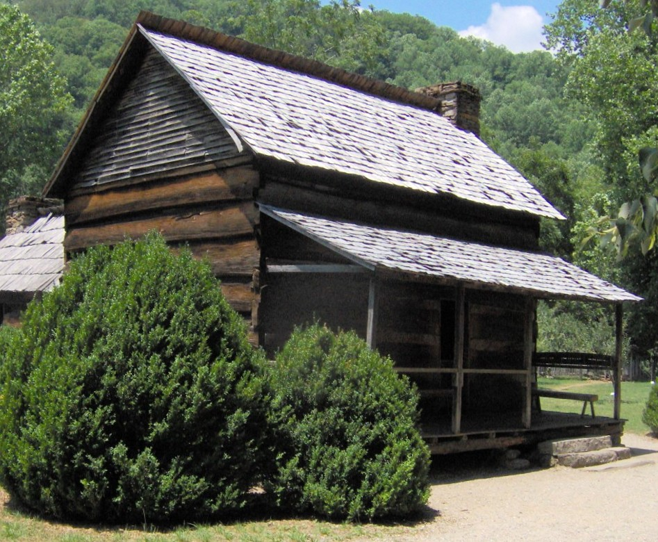 The John Davis Cabin at the Oconaluftee Mountain Farm Museum in the Great Smoky Mountains of North Carolina. Davis and his two sons built the cabin on Indian Creek (above Bryson City) around 1900. In the 1950's, it was moved here from its original location. The cabin is built out of Chestnut tree logs, once a popular building material in the Smokies.